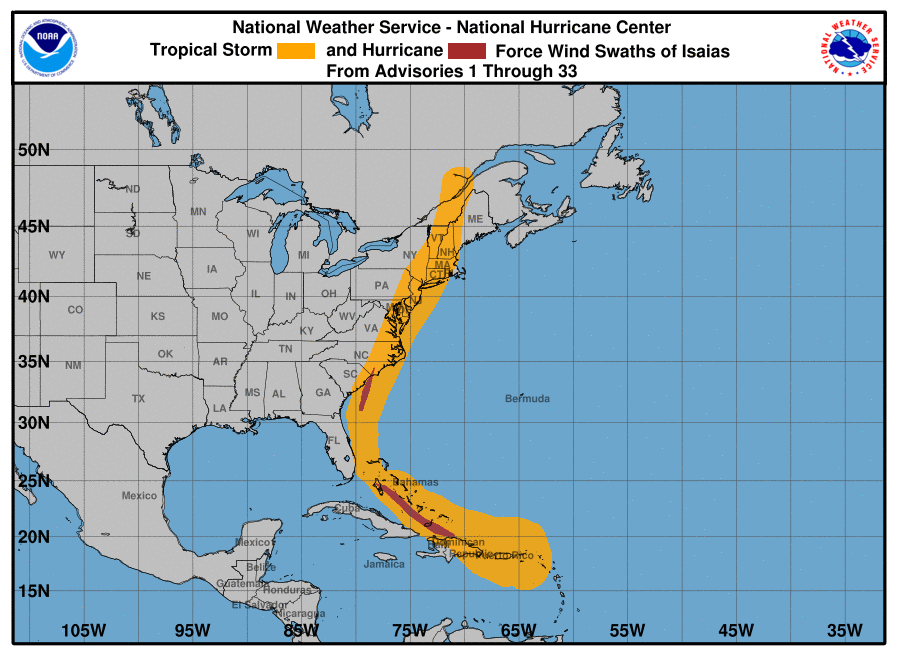 Tropical storm force winds (orange) and hurricane force (red) with Hurricane Isaias in 2020.